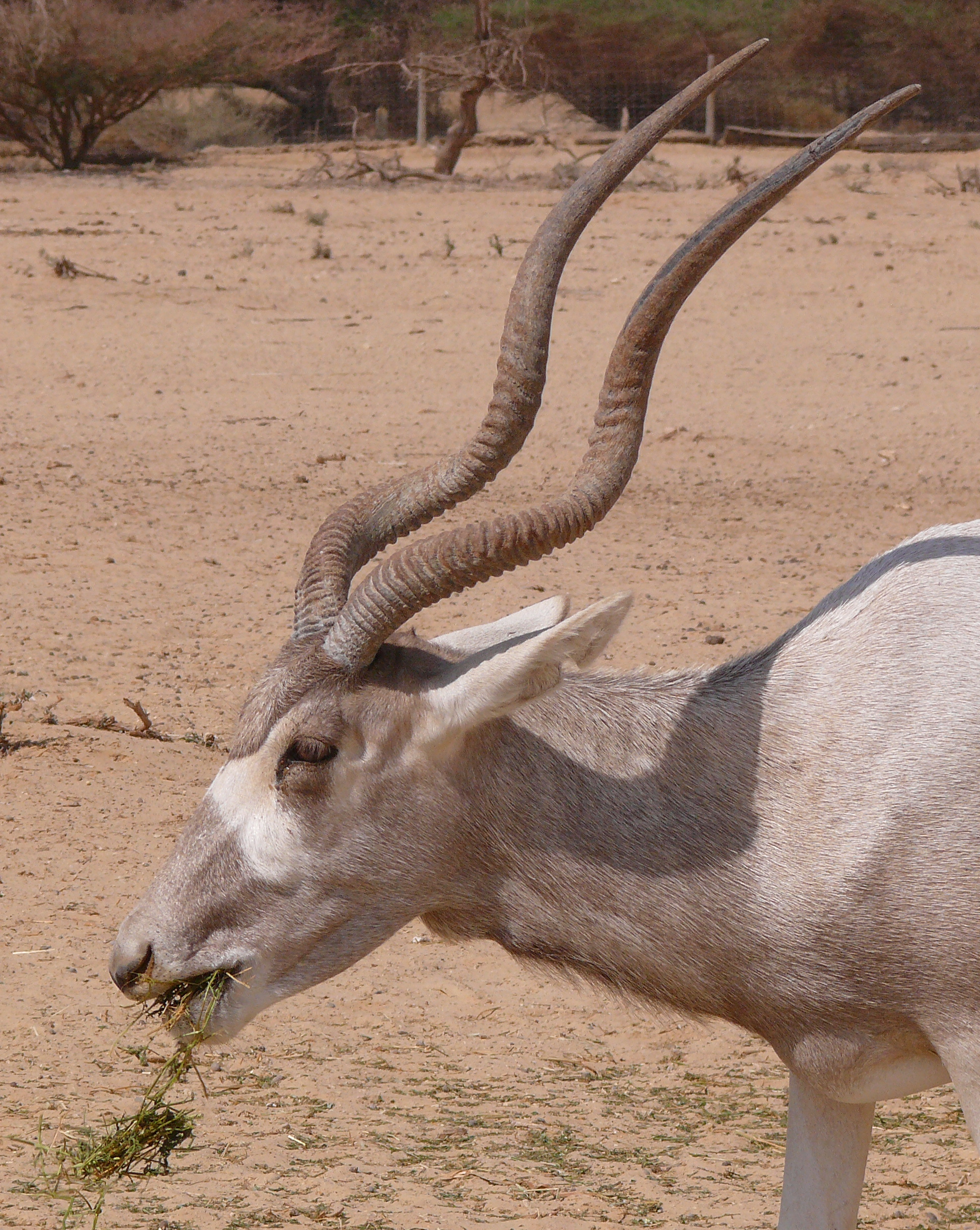 Addax nasomaculatus, Chay Bar Yotvata, Israel